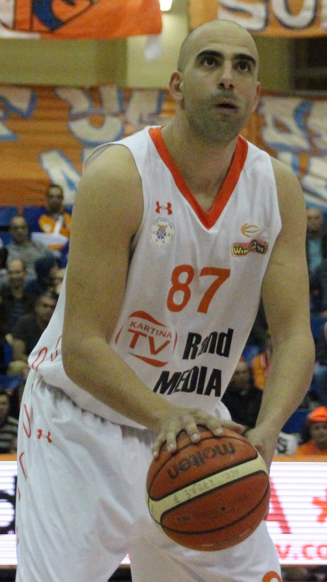 Elishay Kadir during Maccabi Rishon Lezion game against Maccabi Haifa, 05.03.2017.